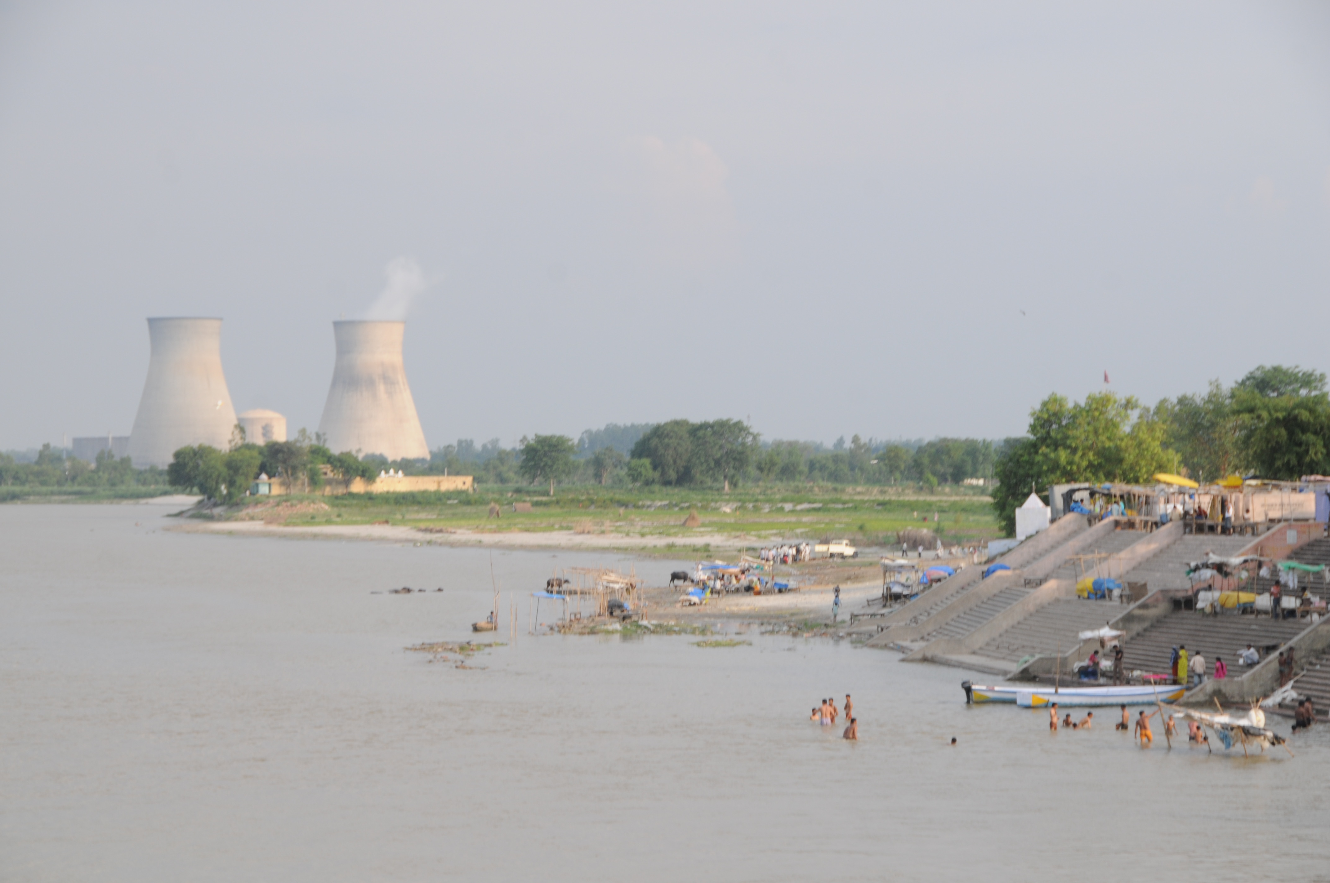 Rivers and economy of Uttar Pradesh